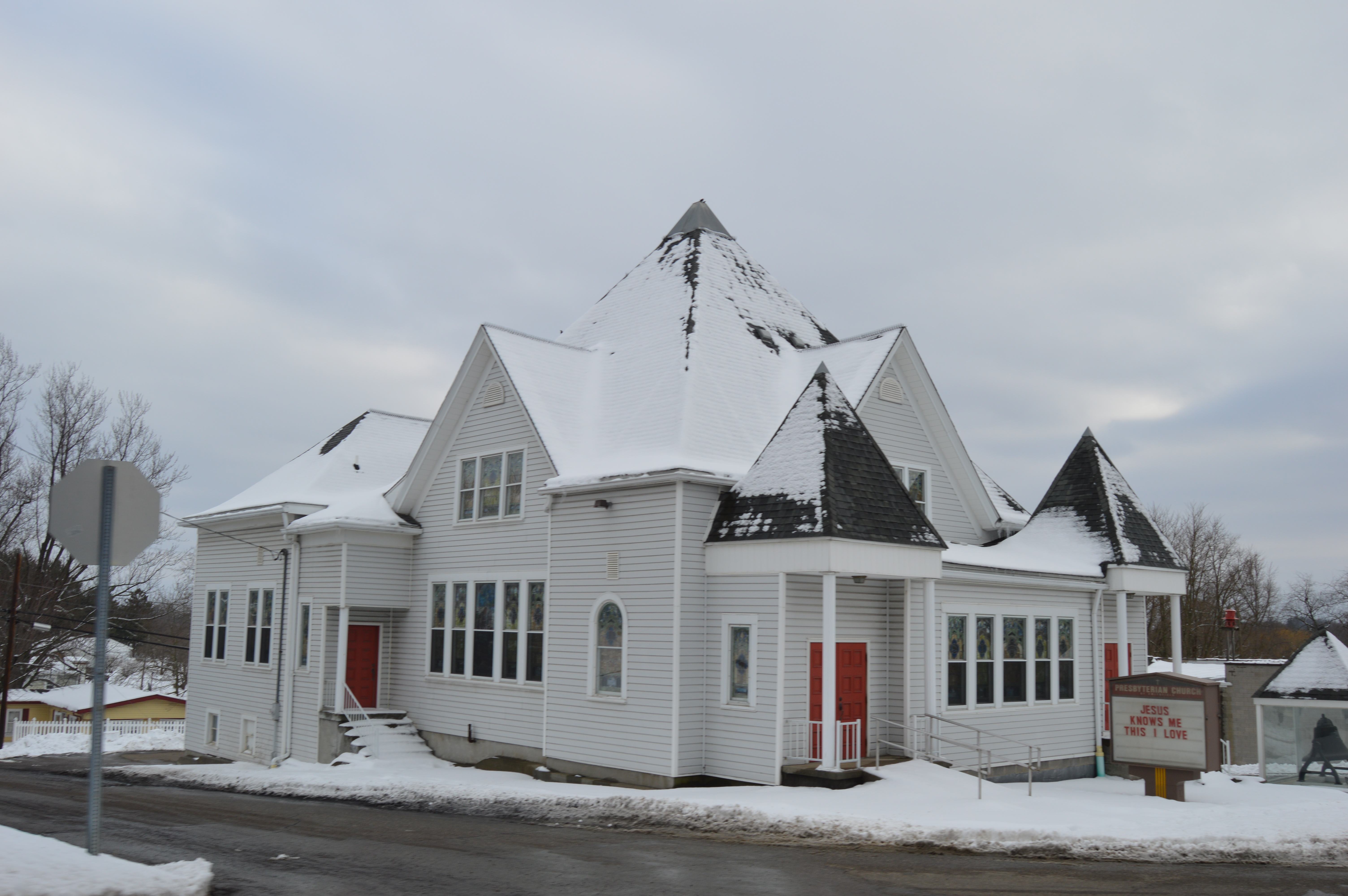 Northern side and front of the Smithfield Presbyterian Church, located at 1154 Main Street (State Route 152) in Smithfield, Ohio, United States.